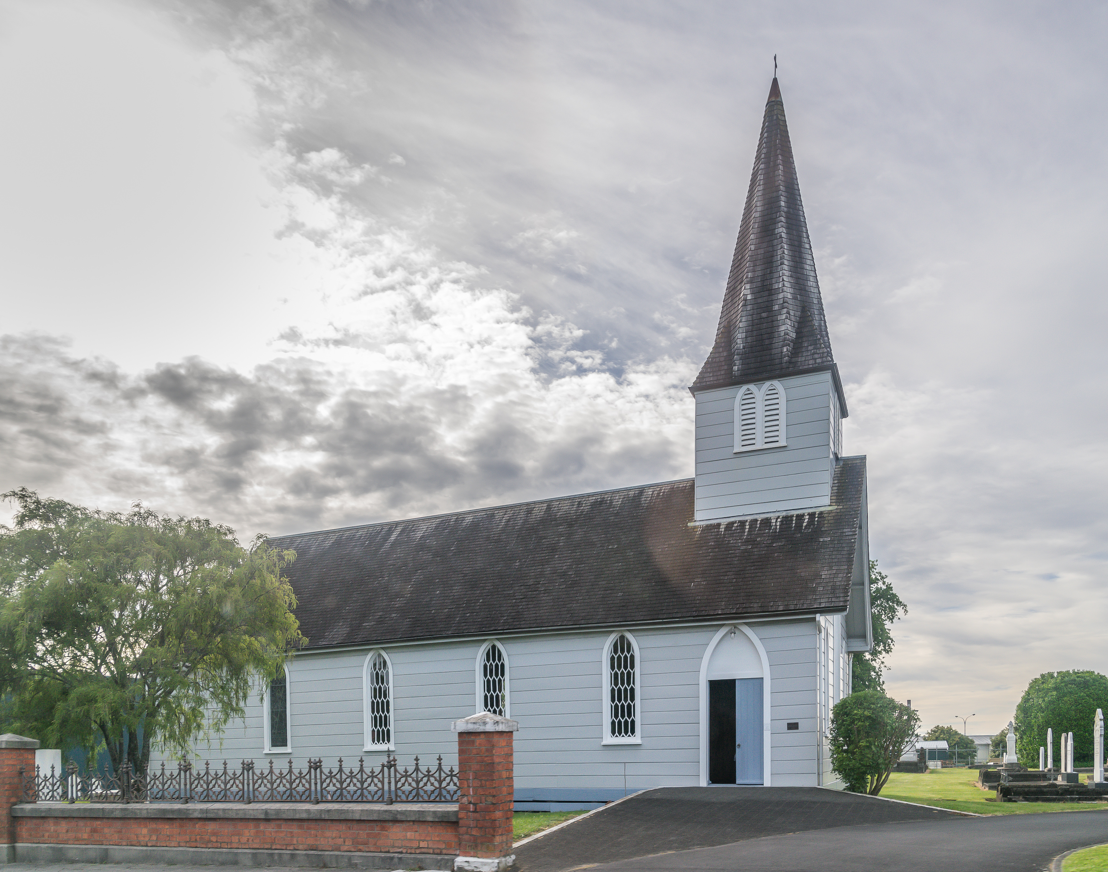 St John's church in Te Awamutu, Waikato Region, North Island of New Zealand